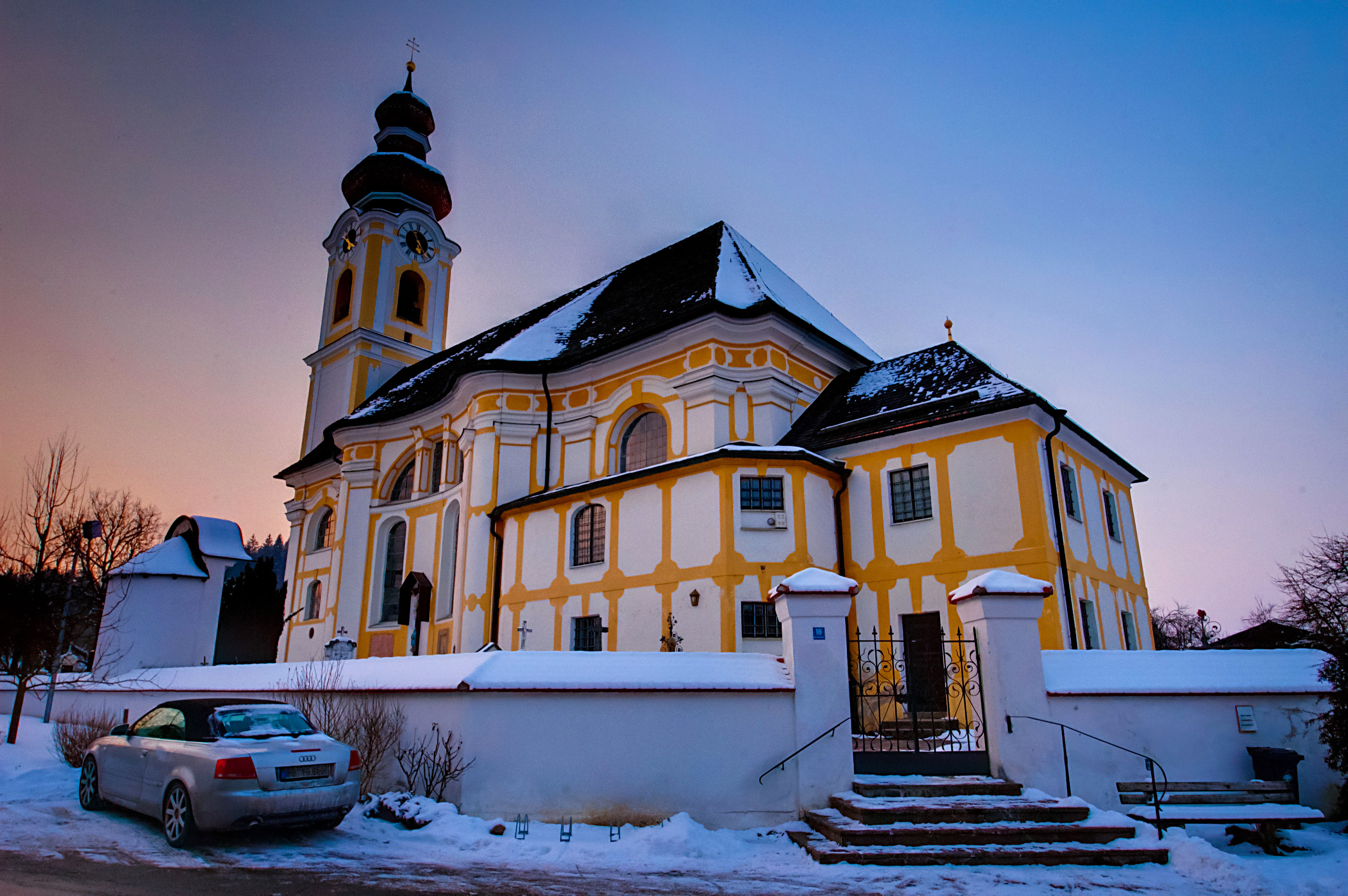 Holy Cross Church in Berbling (Bad Aibling)/Germany.